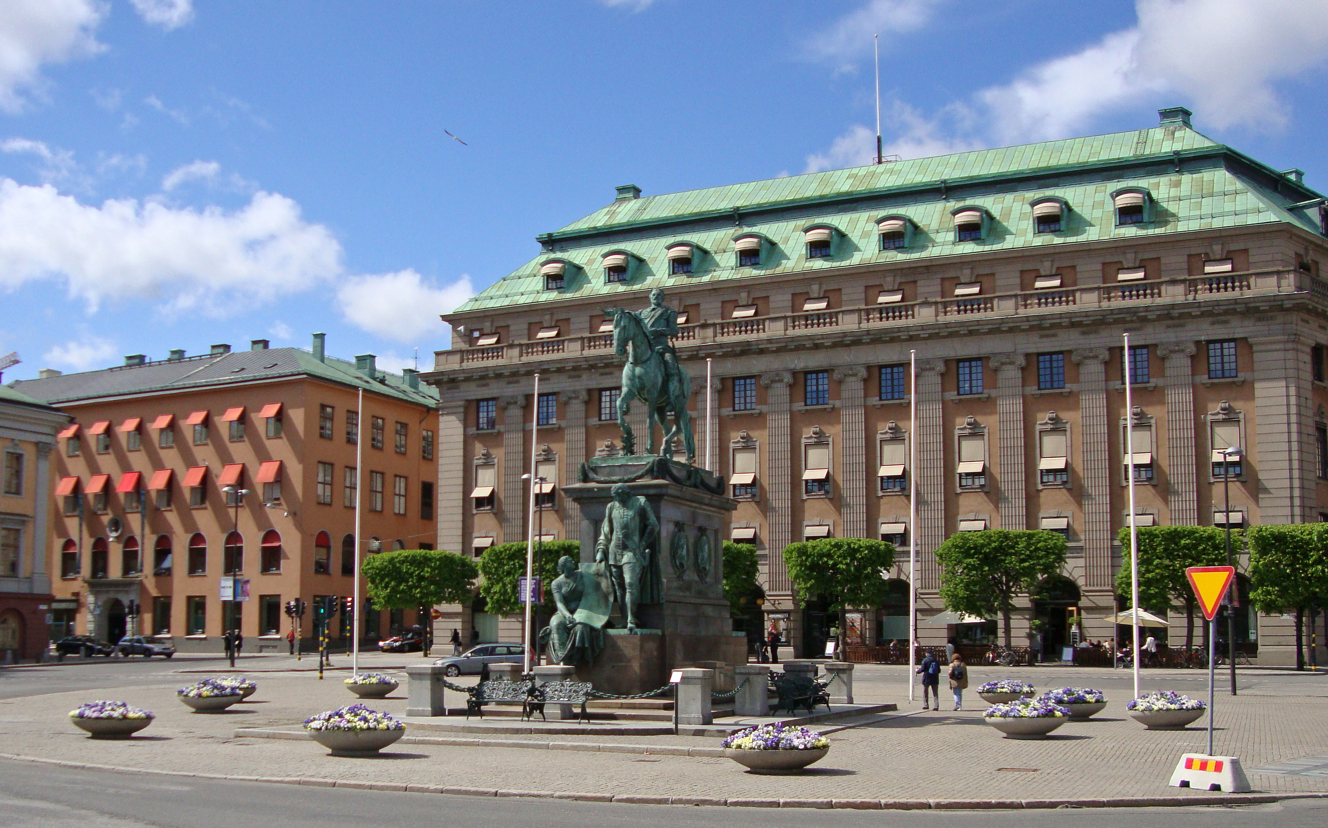 Gustav Adolf's Torg in central Stockholm in Sweden. Summer 2010.